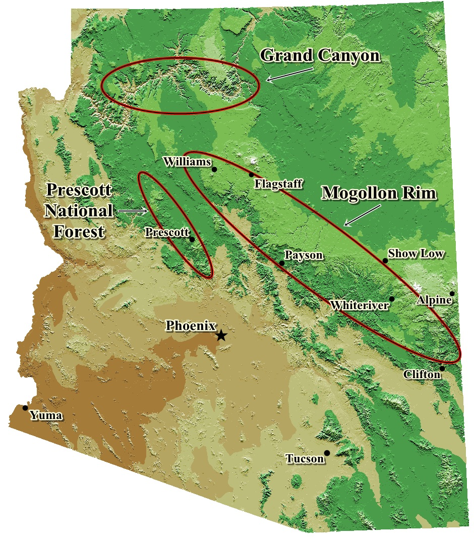 This is a basic topographical map of Arizona. The majority of Mogollon Monster sightings occur in the Mogollon Rim area.